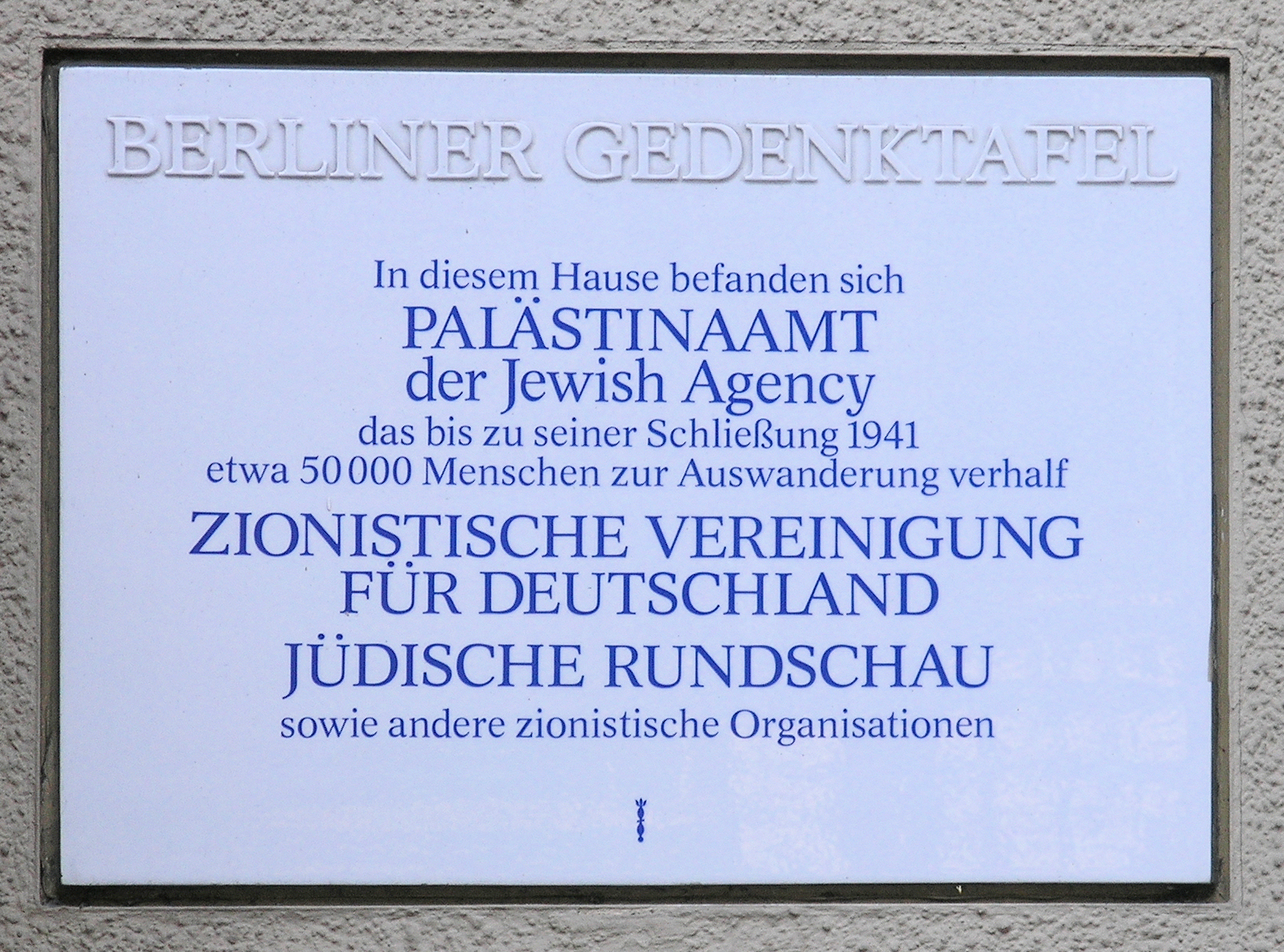 Berlin memorial plaque, Palästinaamt, Meinekestraße 10, Berlin-Charlottenburg, Germany